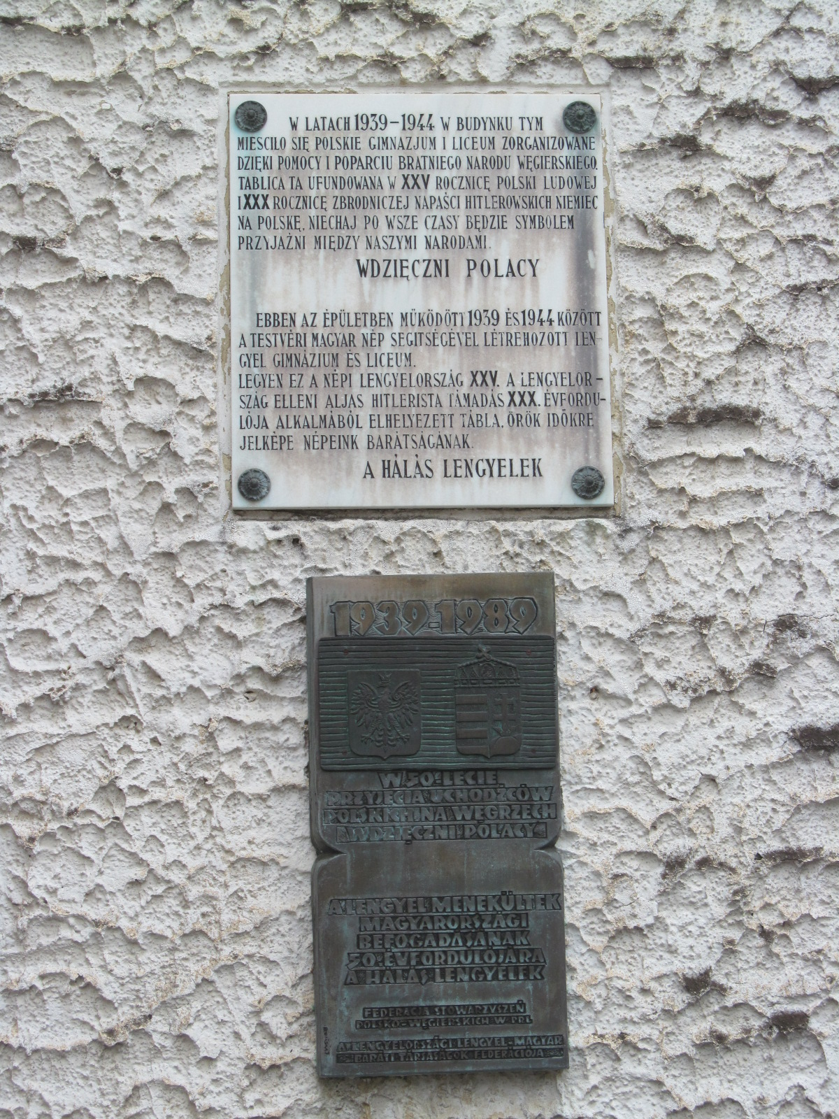 Tablica na ścianie szkoły polskiej w Balatonboglár